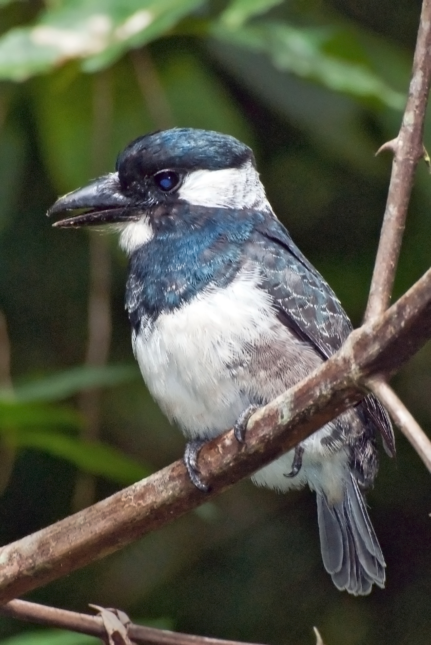 Black-breasted Puffbird -- Pipeline Road, Panama -- 2008 October